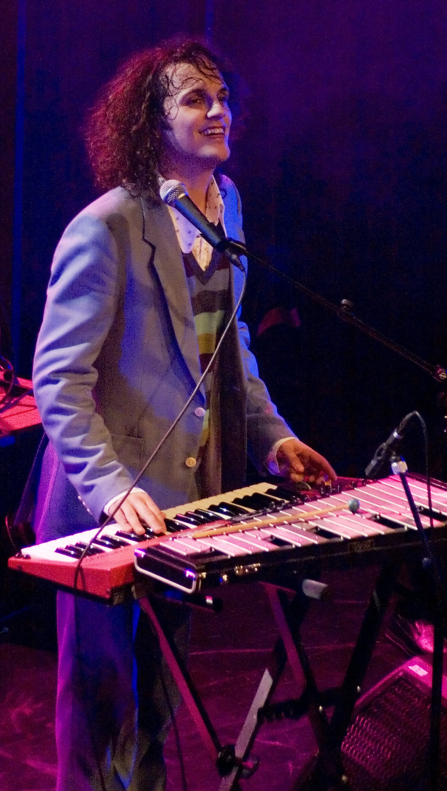 Salem Al Fakir live at Rival (Stockholm, Sweden).